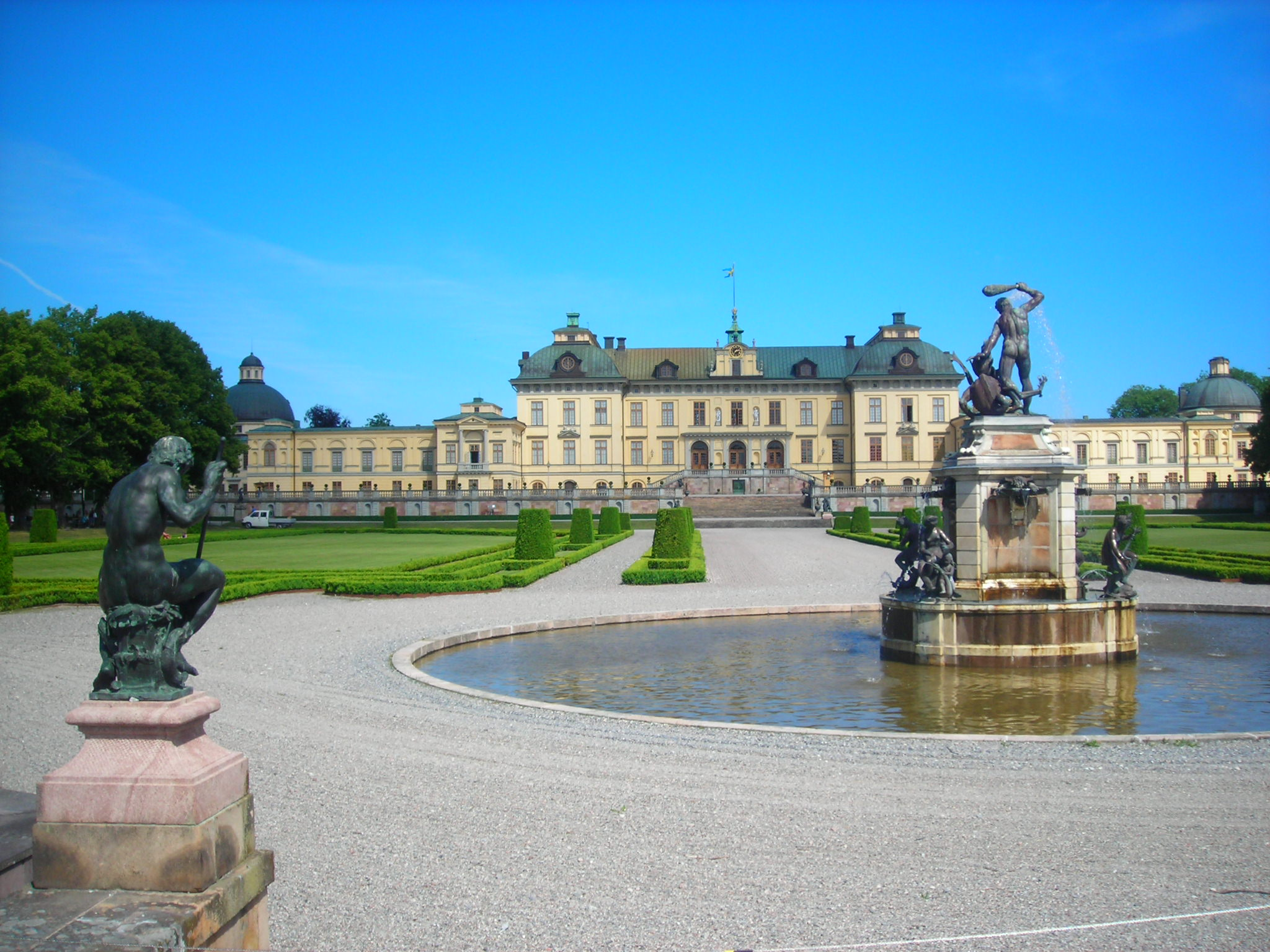 Garden side of Drottningholm Palace with fountain infront